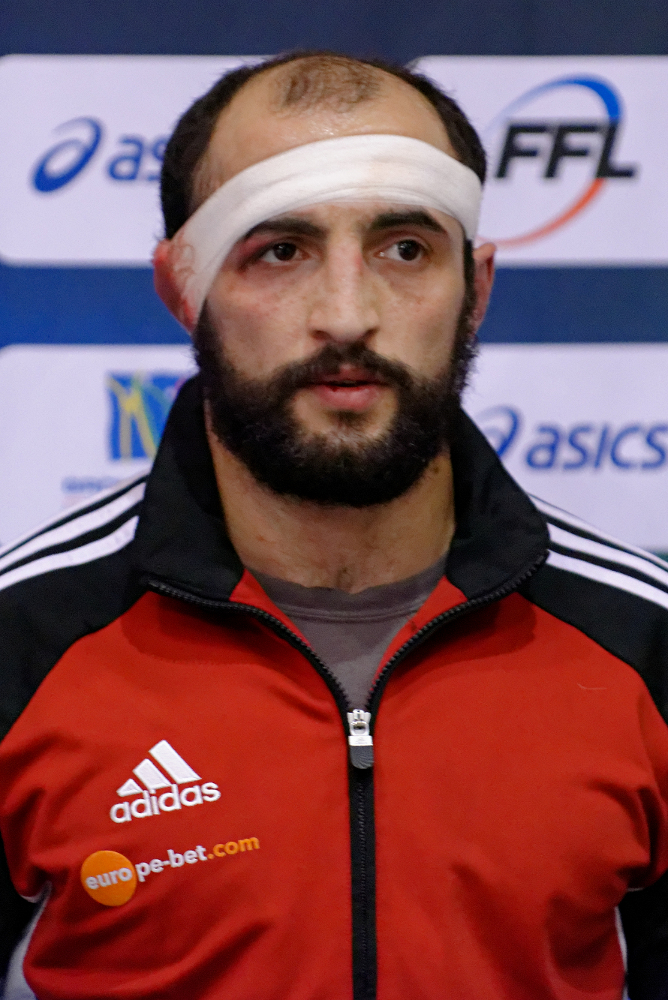 Revaz Lashkhi of Georgia at the award ceremony of the Greco-Roman wrestling 80kg event at the Golden Grand Prix of Paris.